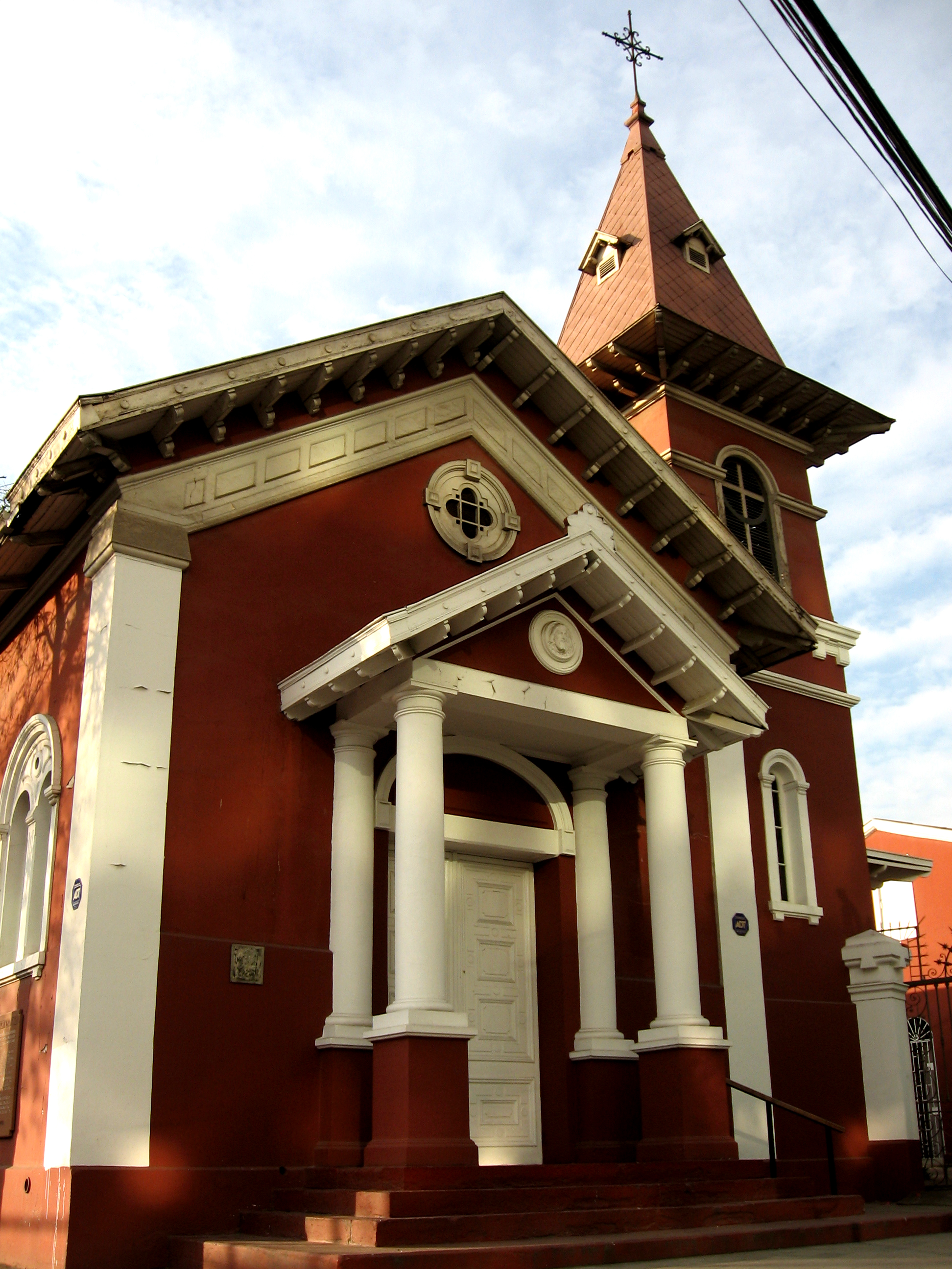 This is a photo of a national monument in Chile: 900